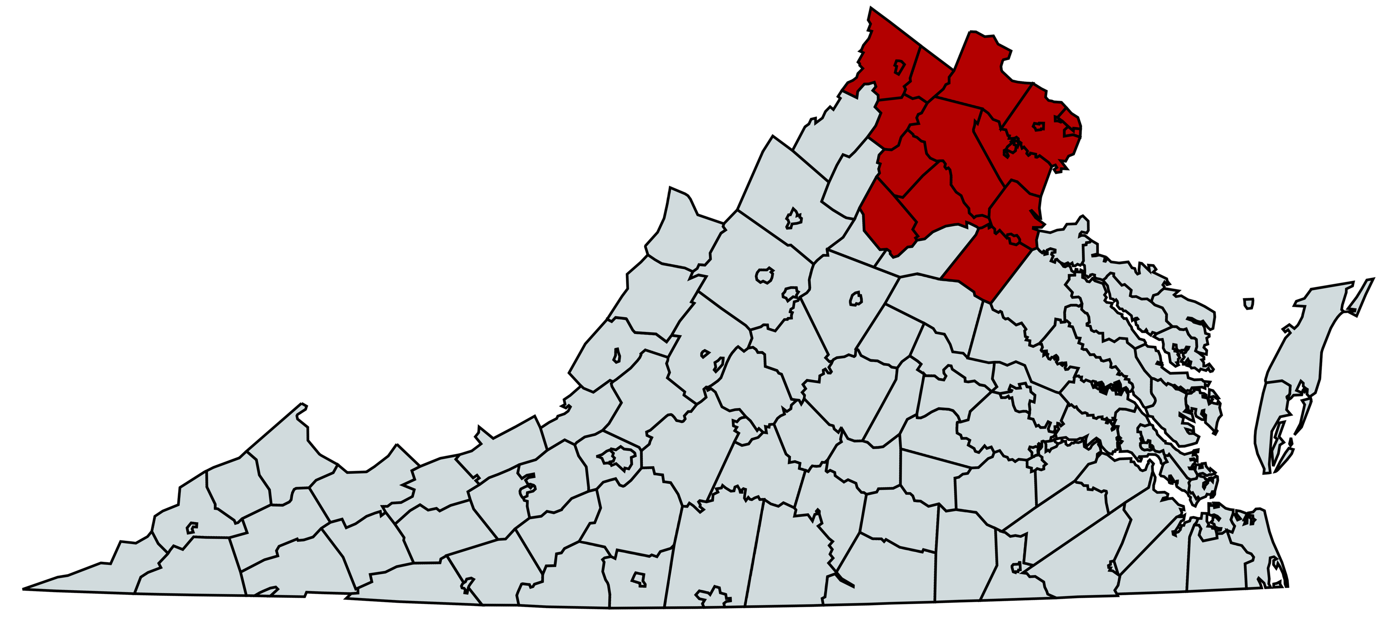 Current Northern Virginia Incorporated Counties